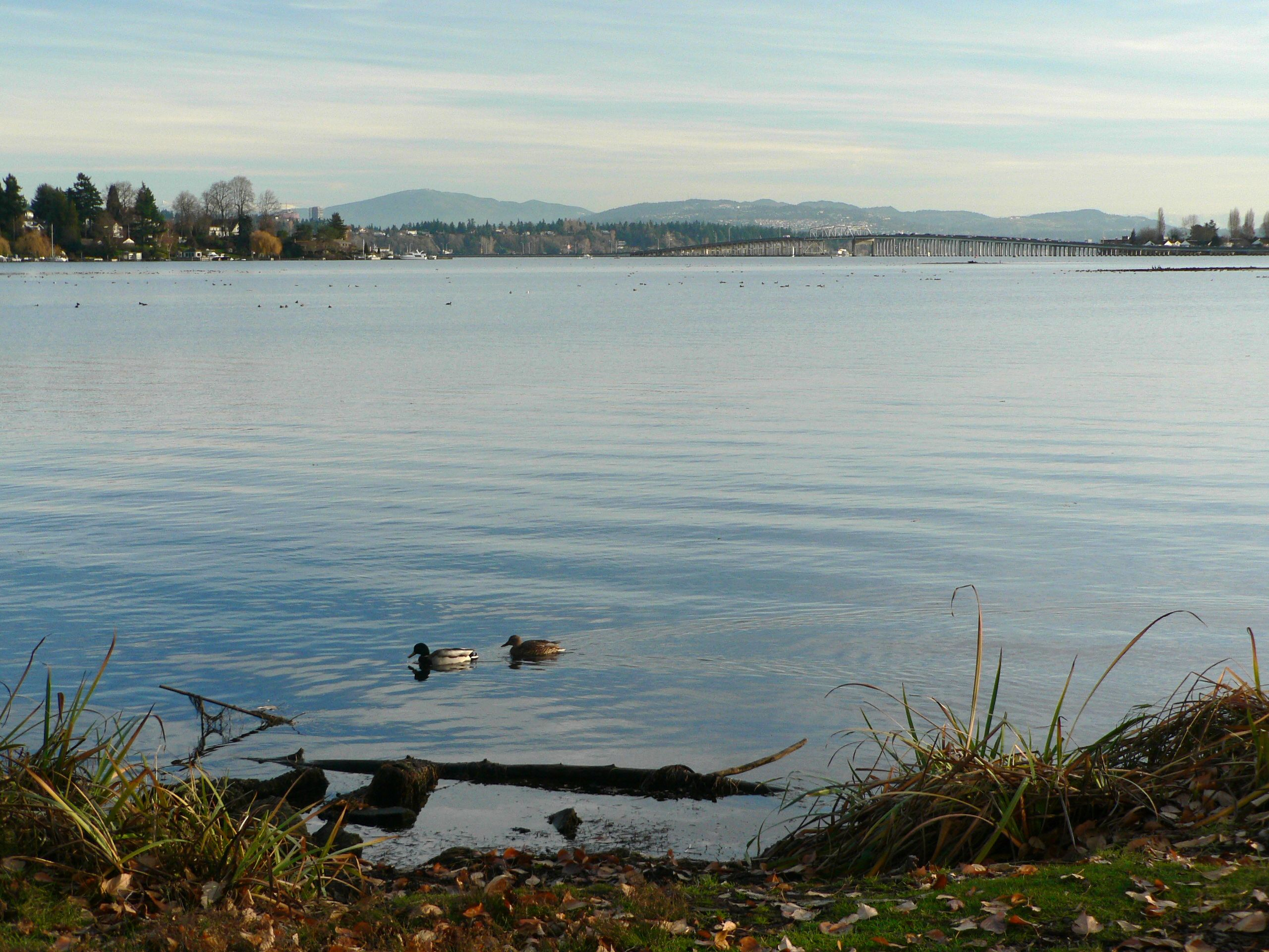 Union Bay of Lake Washington; west highrise of Evergreen Point Floating Bridge, Washington SR-520